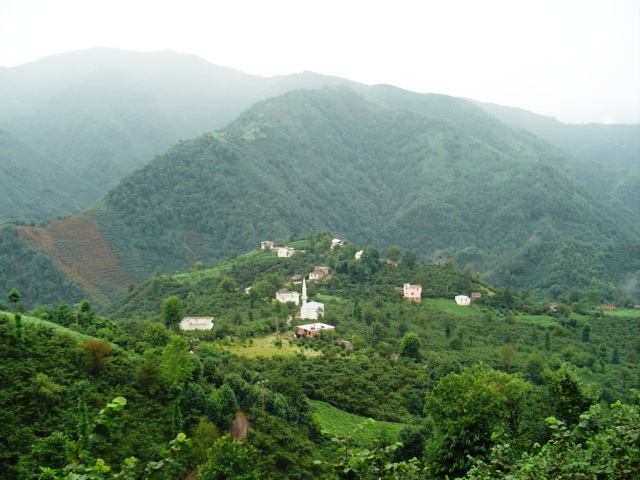 A view of Giresun Mountains. The village on the photo is Çımaklı (pronounced as ghimagligh), a small village in Espiye district of Giresun province located in Black Sea region of Turkey.